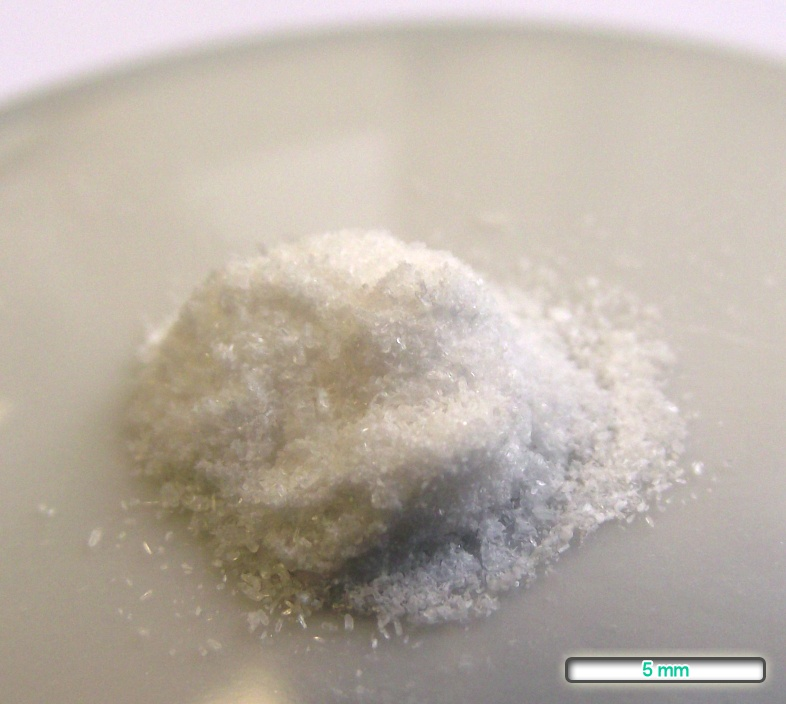 Photo of Aspirin, pure